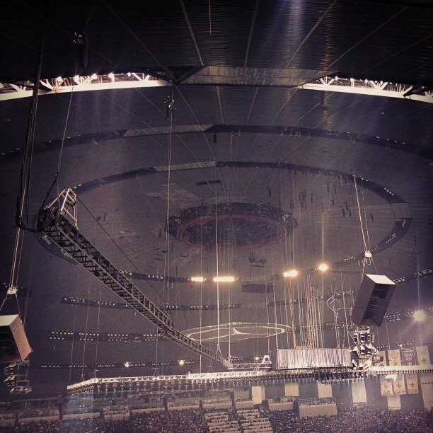 Power went out for 22 minutes during the second half of Super Bowl XLVII causing a 34-minute interruption in game play. Here, some of the fans and much of the ceiling can be seen, with only a few lights lit.